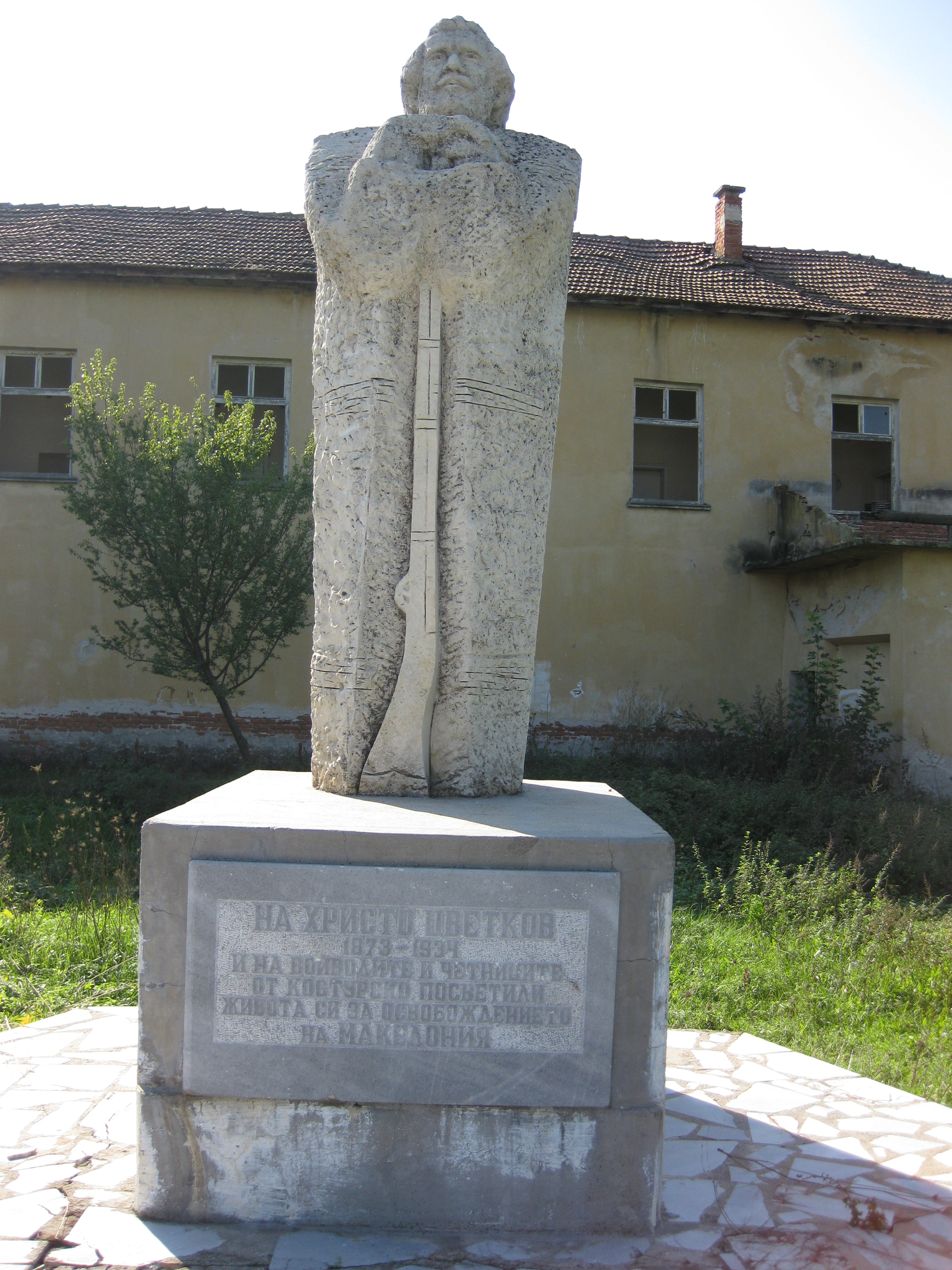 Monument of Hristo Tsvetkov and all Bulgarian revolutionaries from Kastoria area fighting for freedom of Macedonia. Novo Konomladi village, Bulgaria